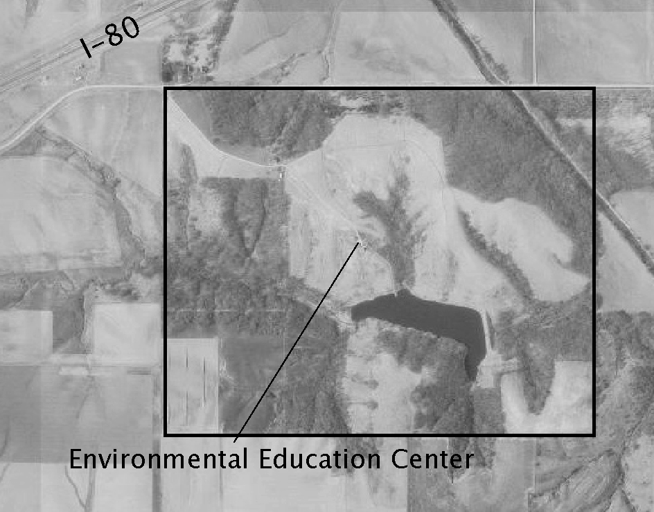 USGS aerial image of the Conard Environmental Research Area (CERA) in Iowa. Labeled as "Courtesy of U.S. Geological Survey" and "14 km SW of Grinnell, Iowa, United States 4/18/1994". This file is labeled in English and saved as a JPEG. It was edited in Adobe Illustrator.